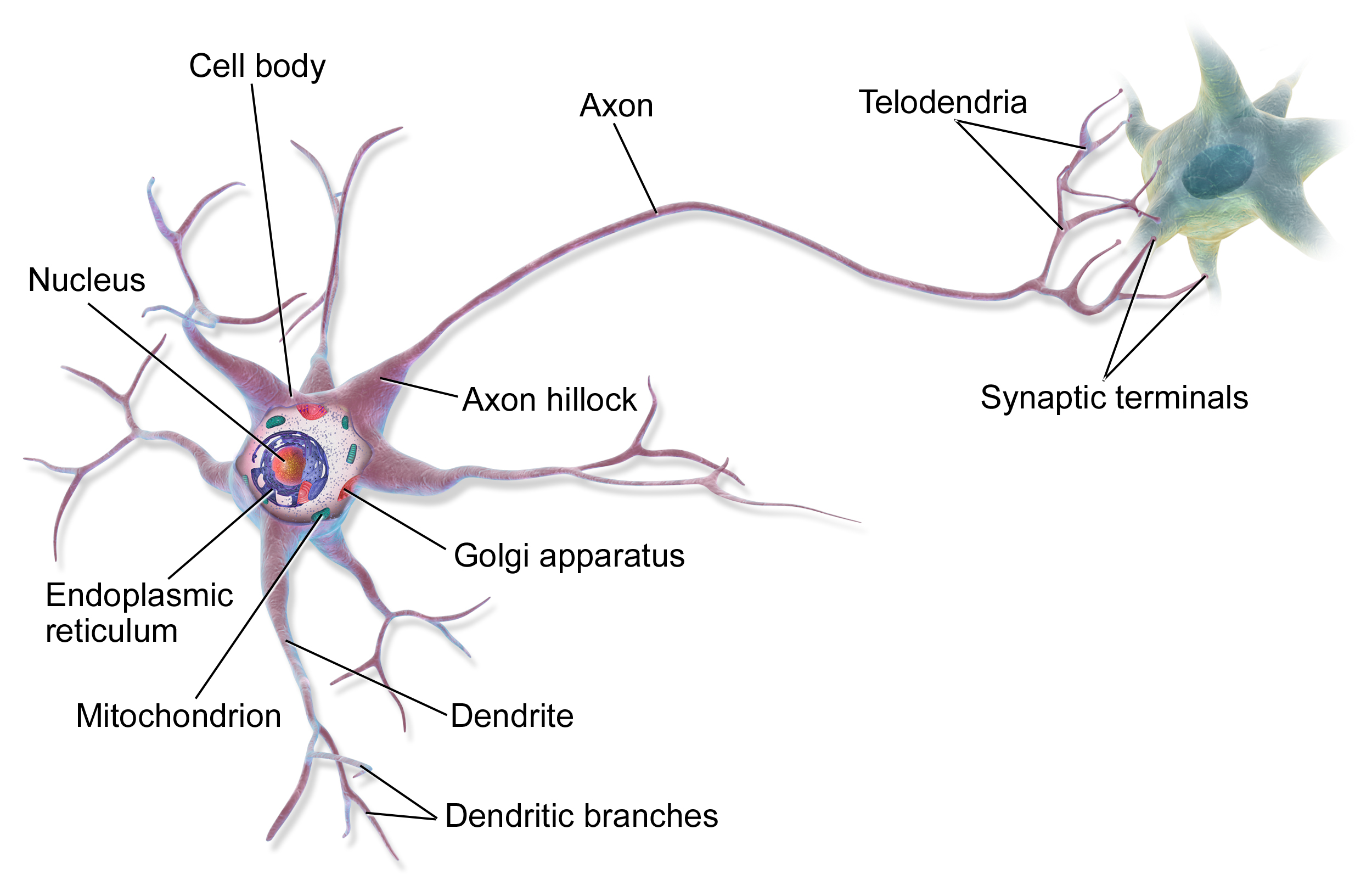 Multipolar Neuron. See a full animation[dead link] of this medical topic.